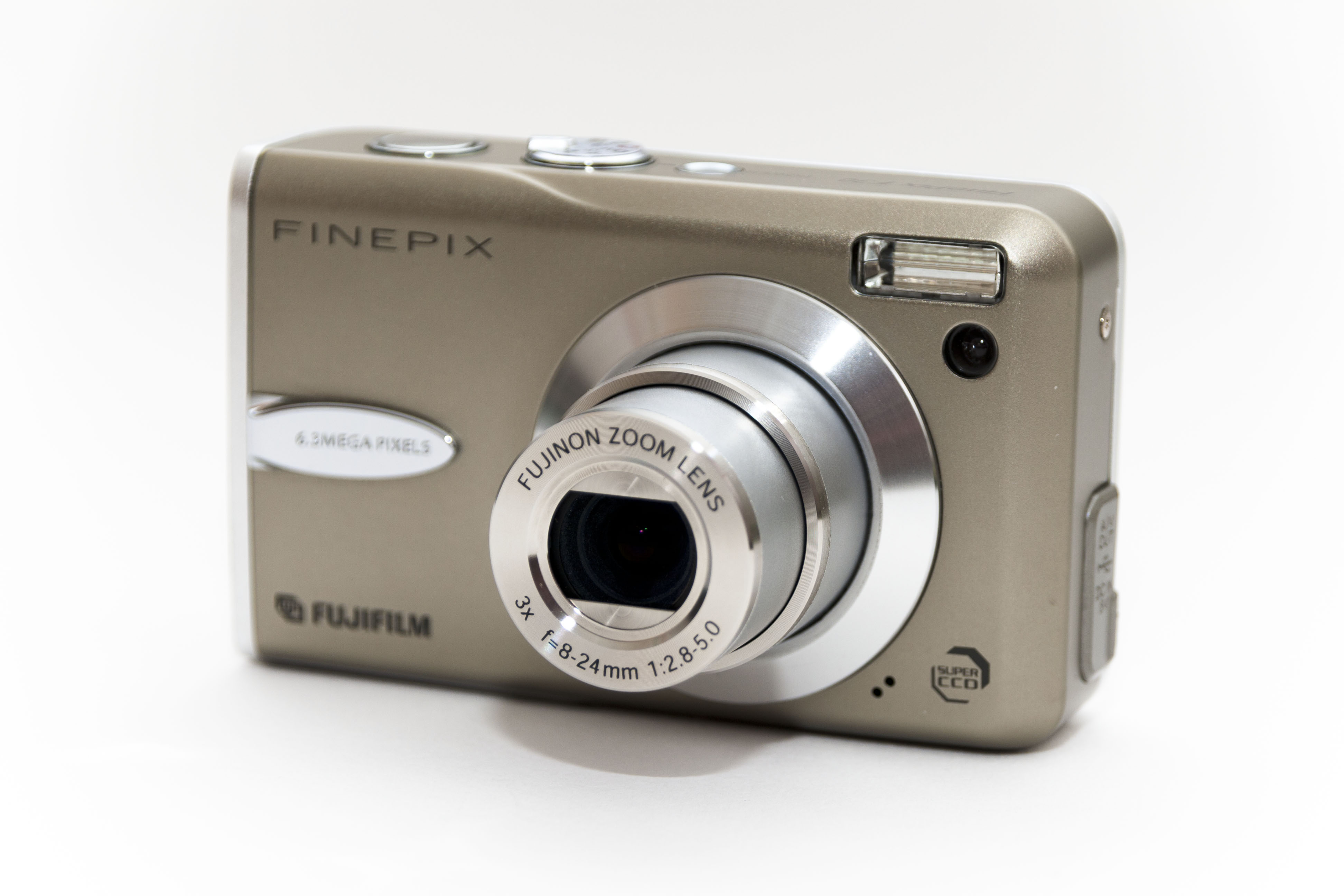 fujifilm finepix F30 camera. The first full resolution (6,1 MPixels) high ISO (3200) compact camera.